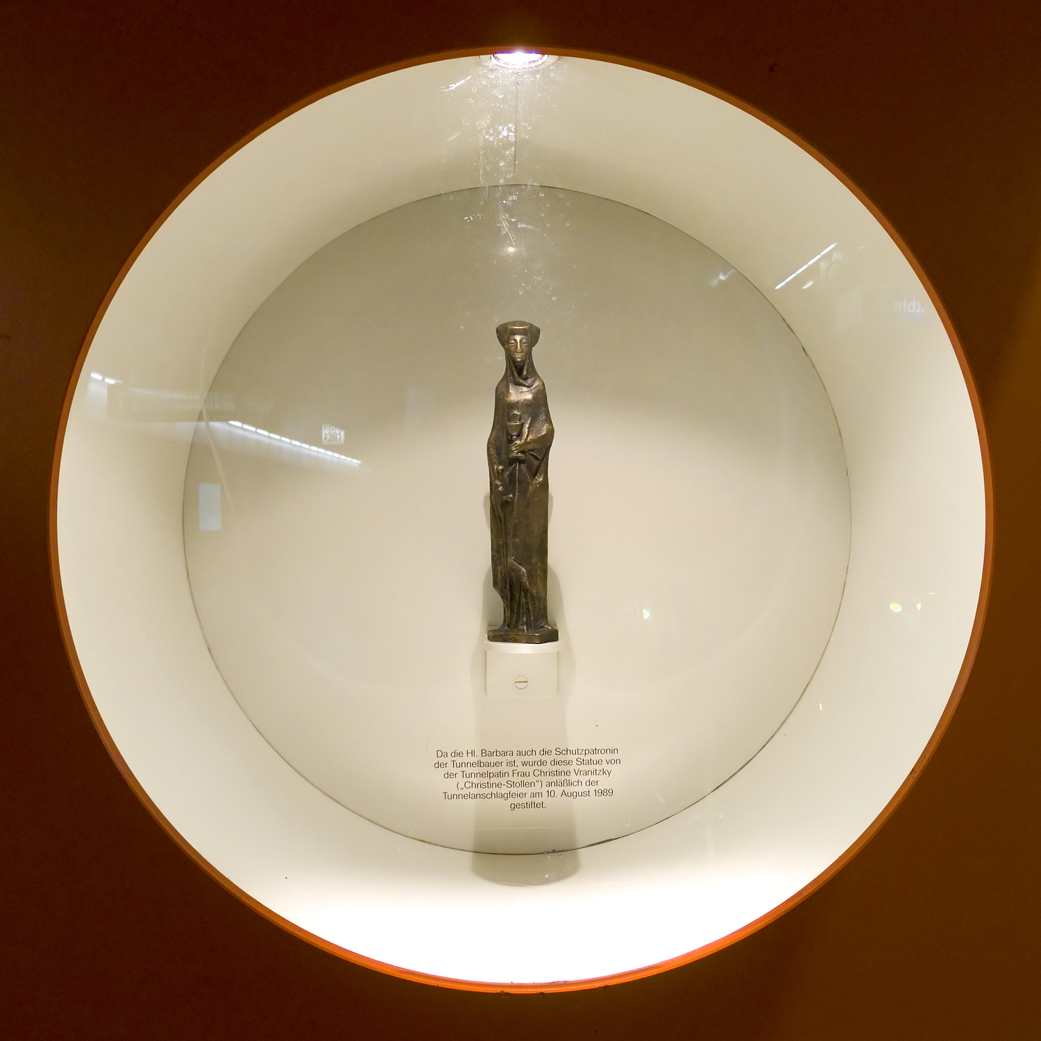 Underground station Wien Westbahnhof in Vienna